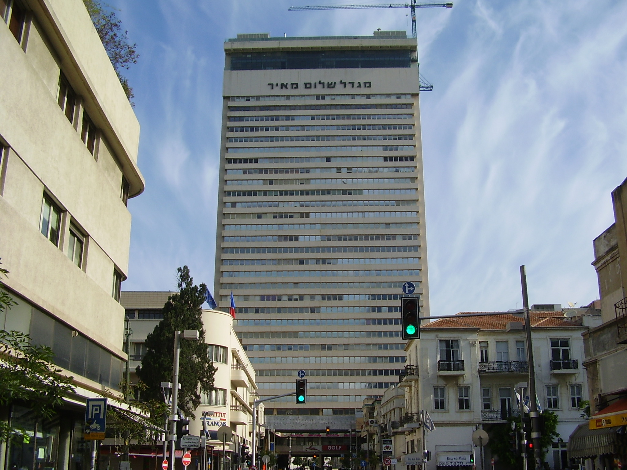 Shalom Meir Tower, Tel Aviv